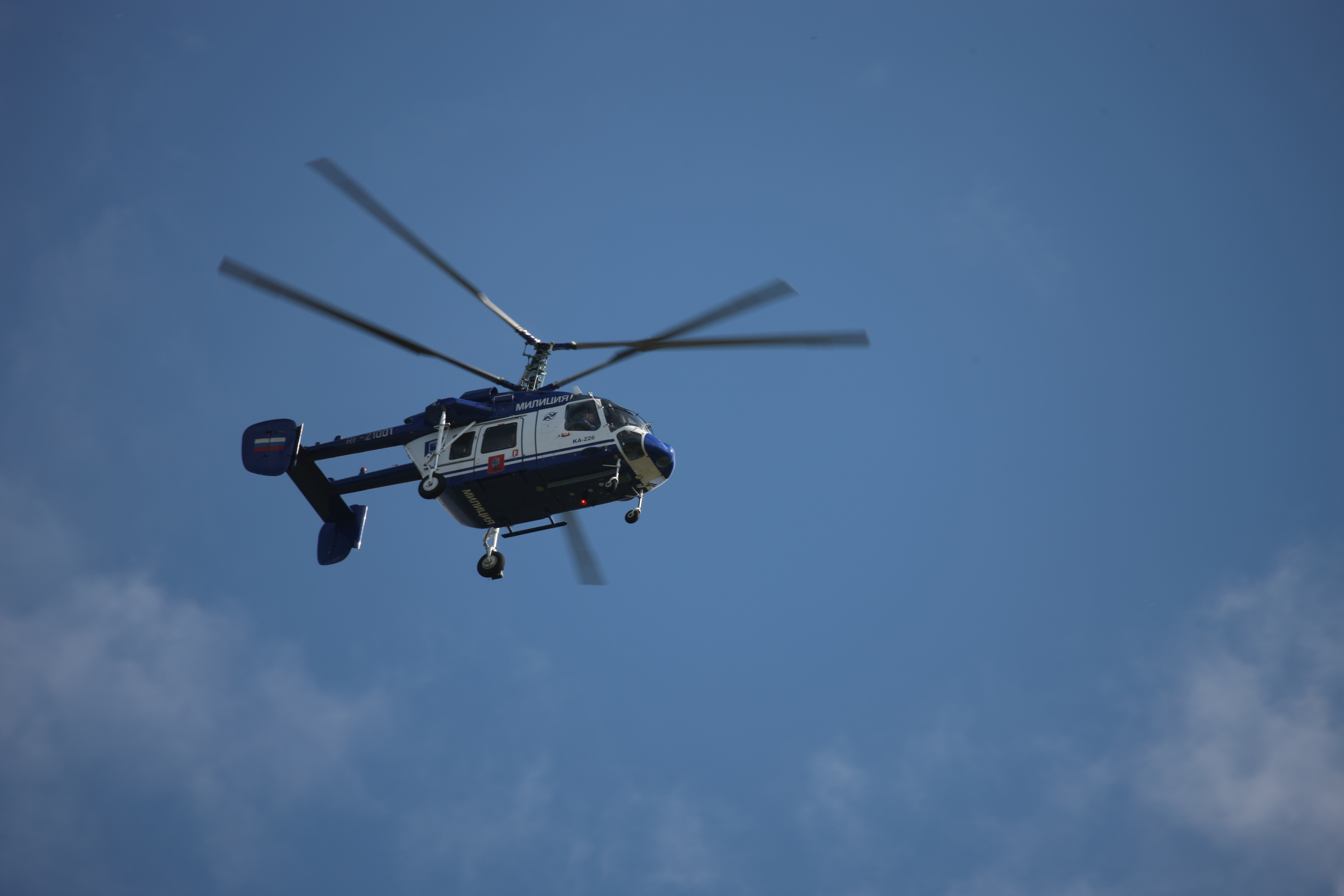 Kamov Ka-226 'Sergei', Russian Militia Service of Moscow (Police Helicopter), reg. no. RF-21001. As seen in Tomilino